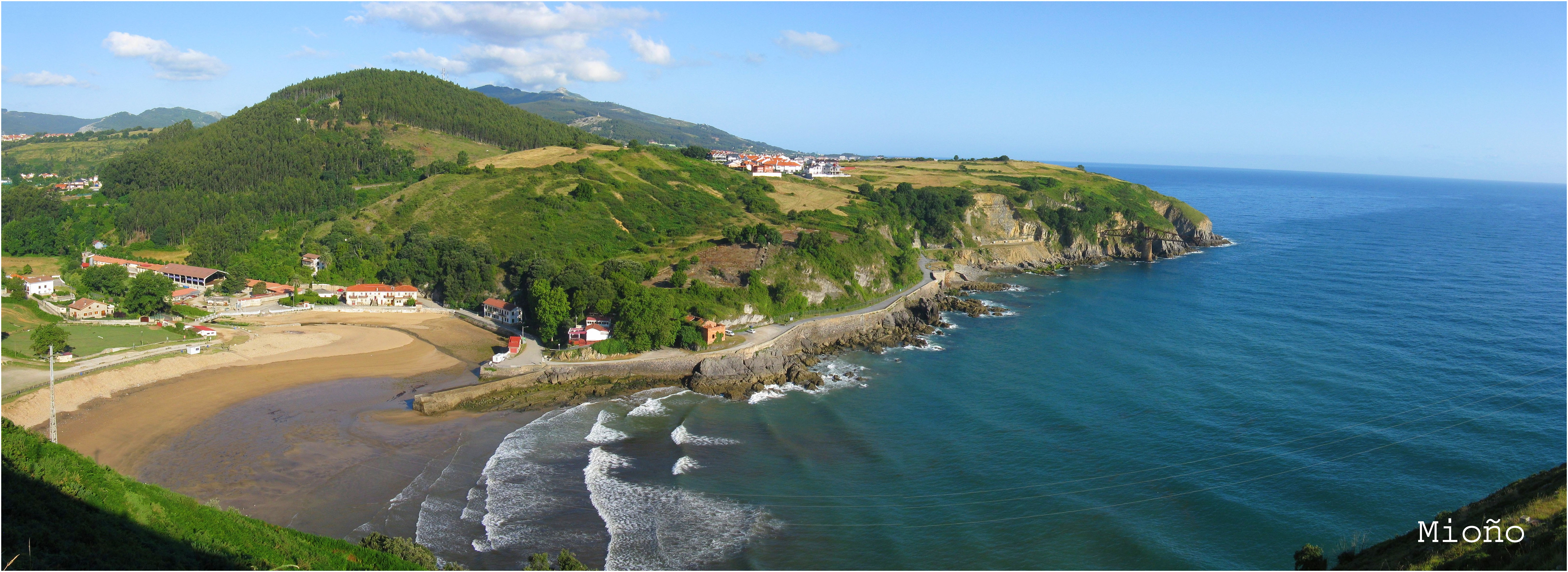 Mioño, in Castro Urdiales (Cantabria, Spain)